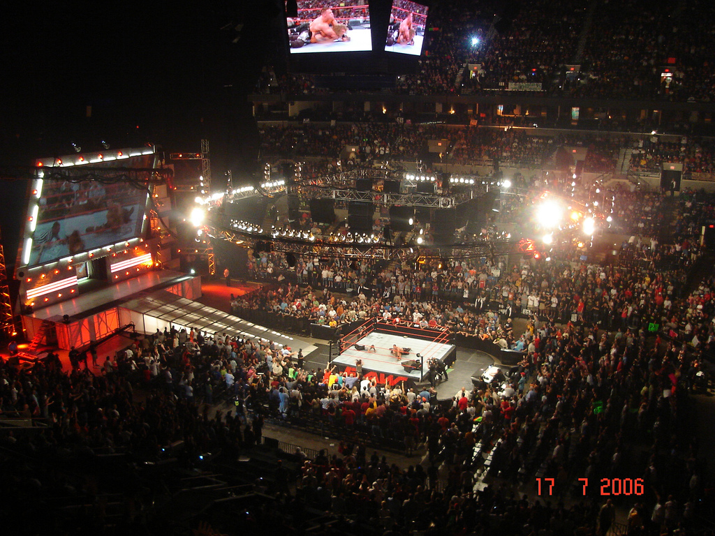 WWE Raw live!